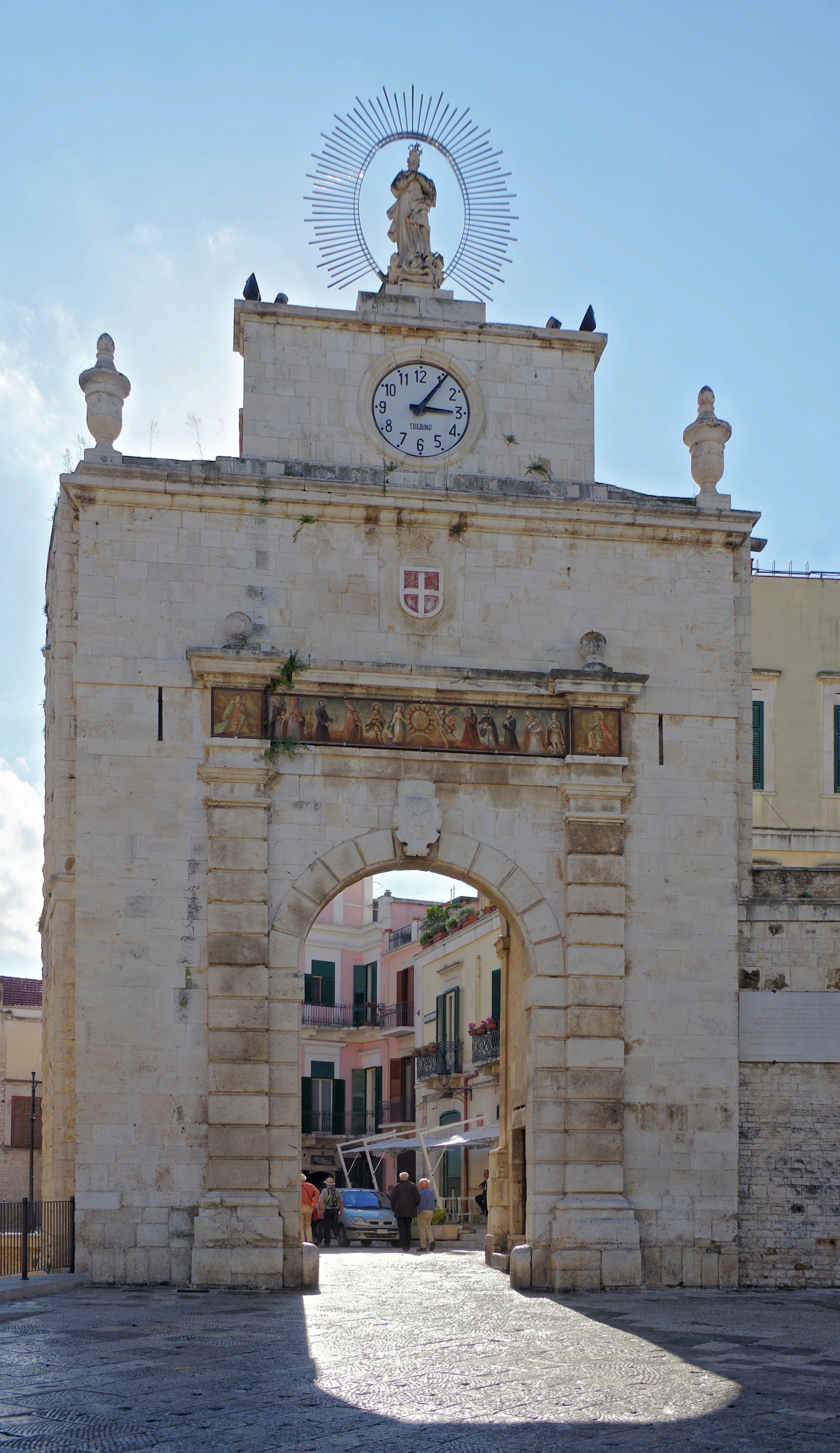 Italy, Bitonto, Porta Baresina